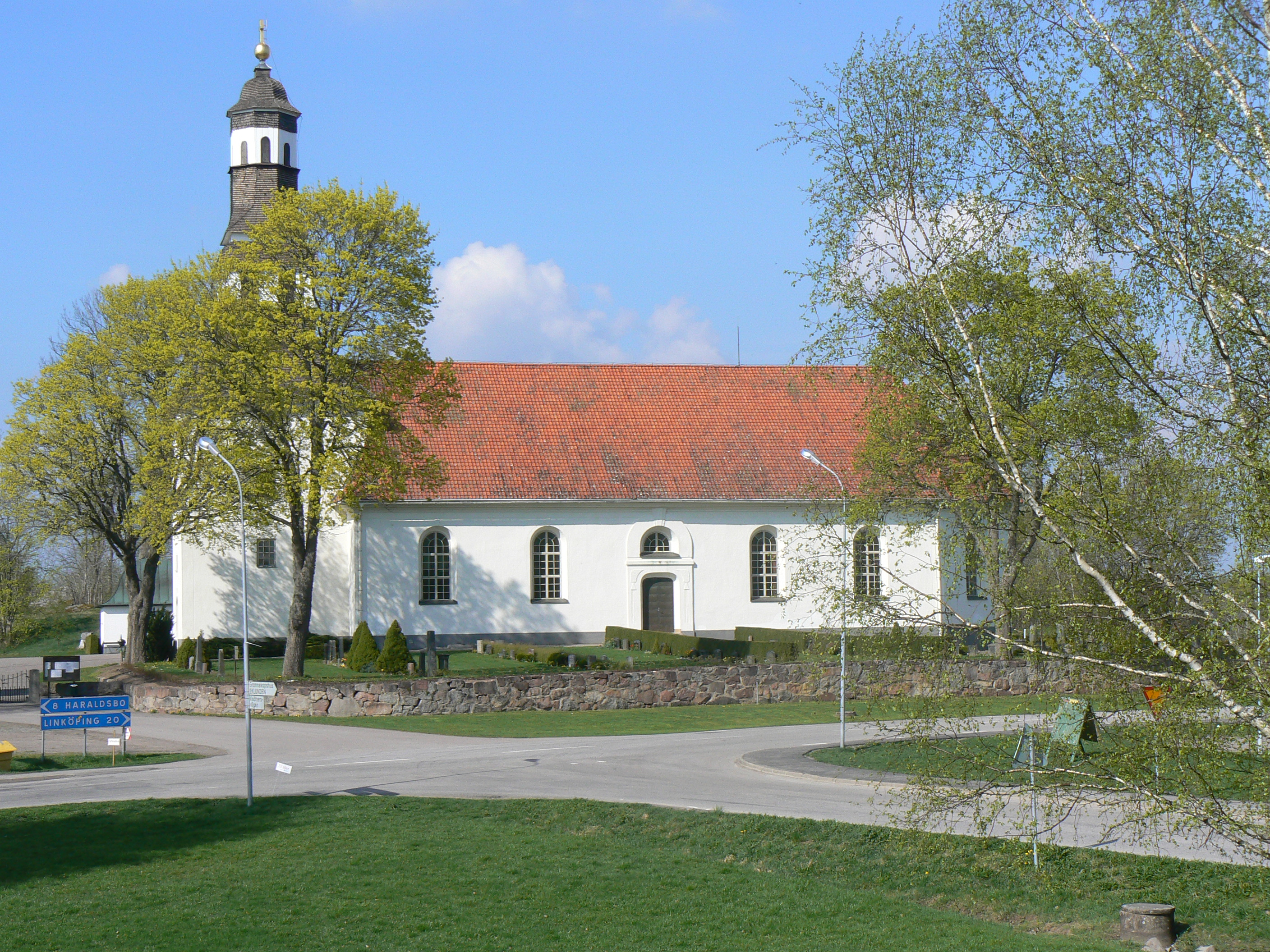 Nykil church, Church of Sweden in Diocese of Linköping